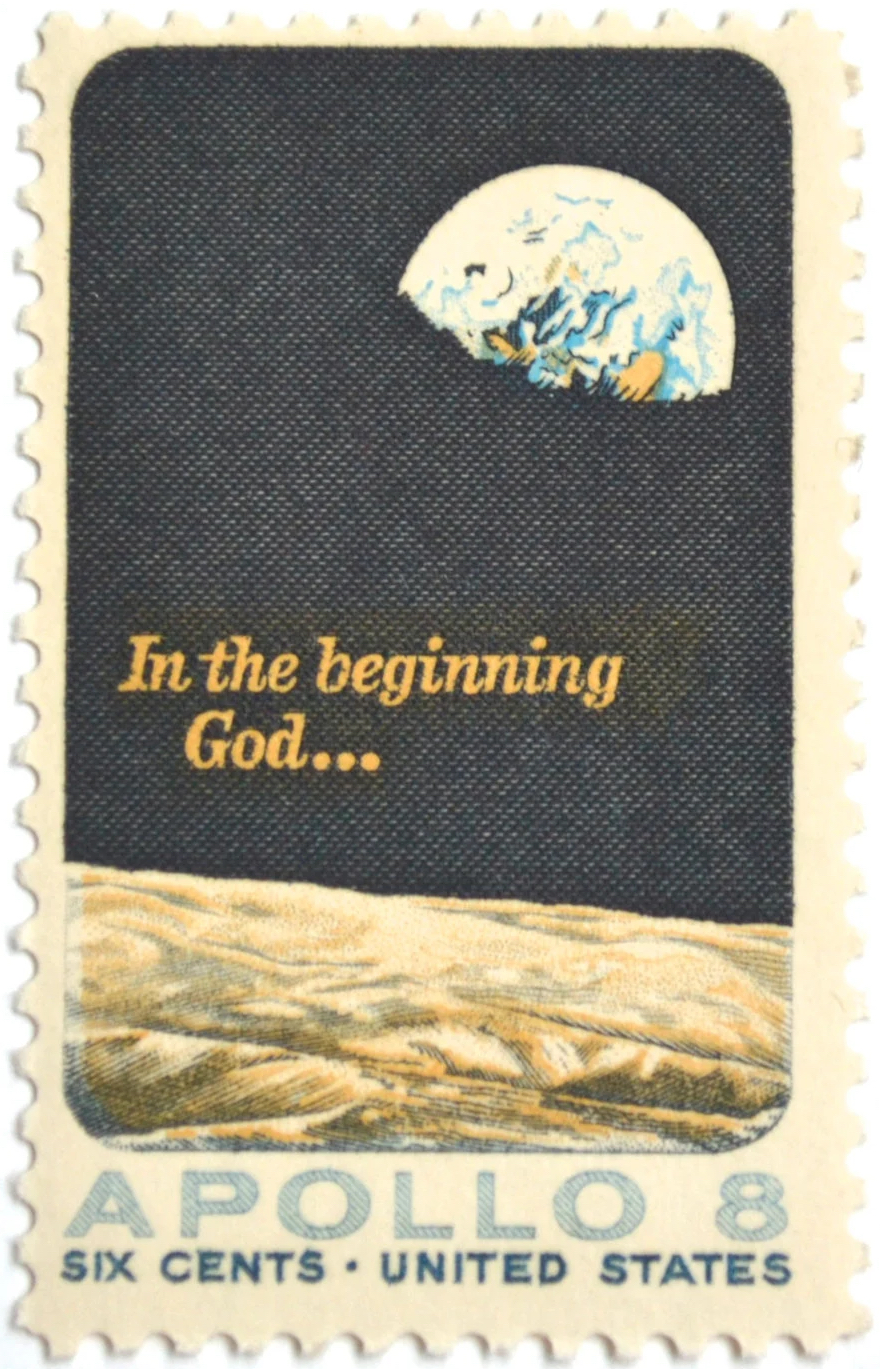 United States postage stamp (Scott #1371) celebrating Apollo 8, the first manned mission to orbit the Moon. Design is based on a photograph taken by the astronauts.